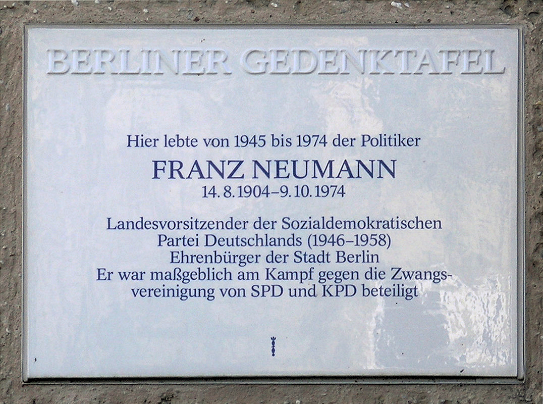 Berlin memorial plaque, Franz Neumann, Moorweg 10, Berlin-Tegel, Germany